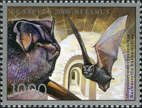 Stamp of Belarus